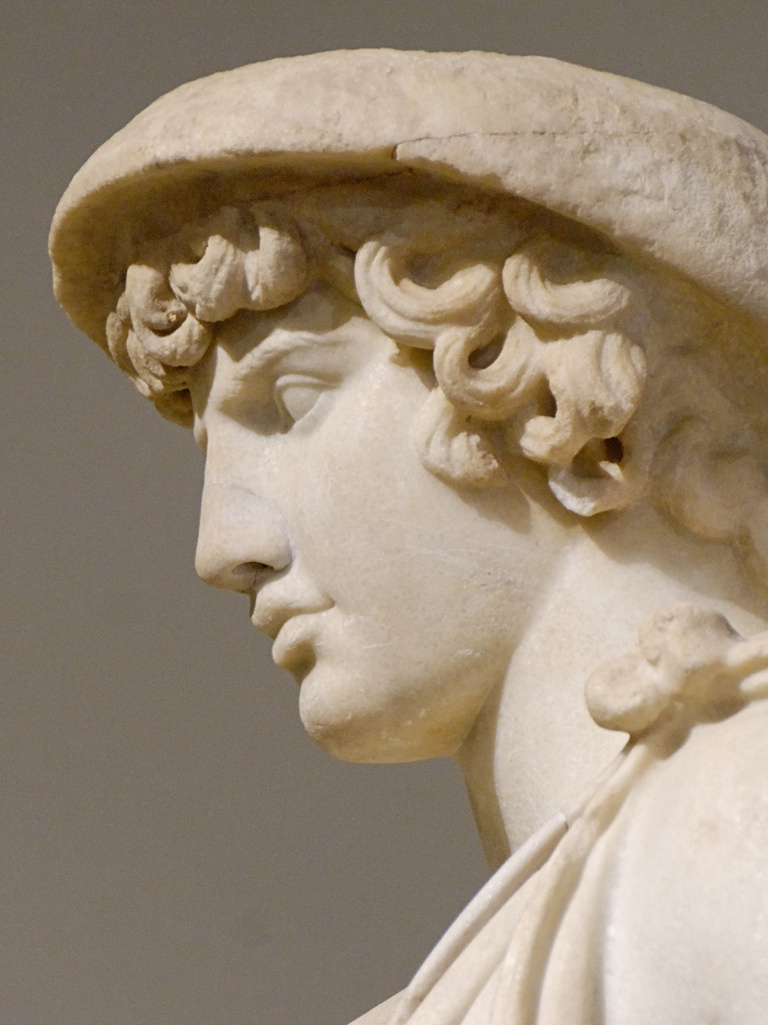 Antinous as Aristaeus, god of the gardens (detail). Bought in Rome in the 17th century by Cardinal Richelieu for his collections.